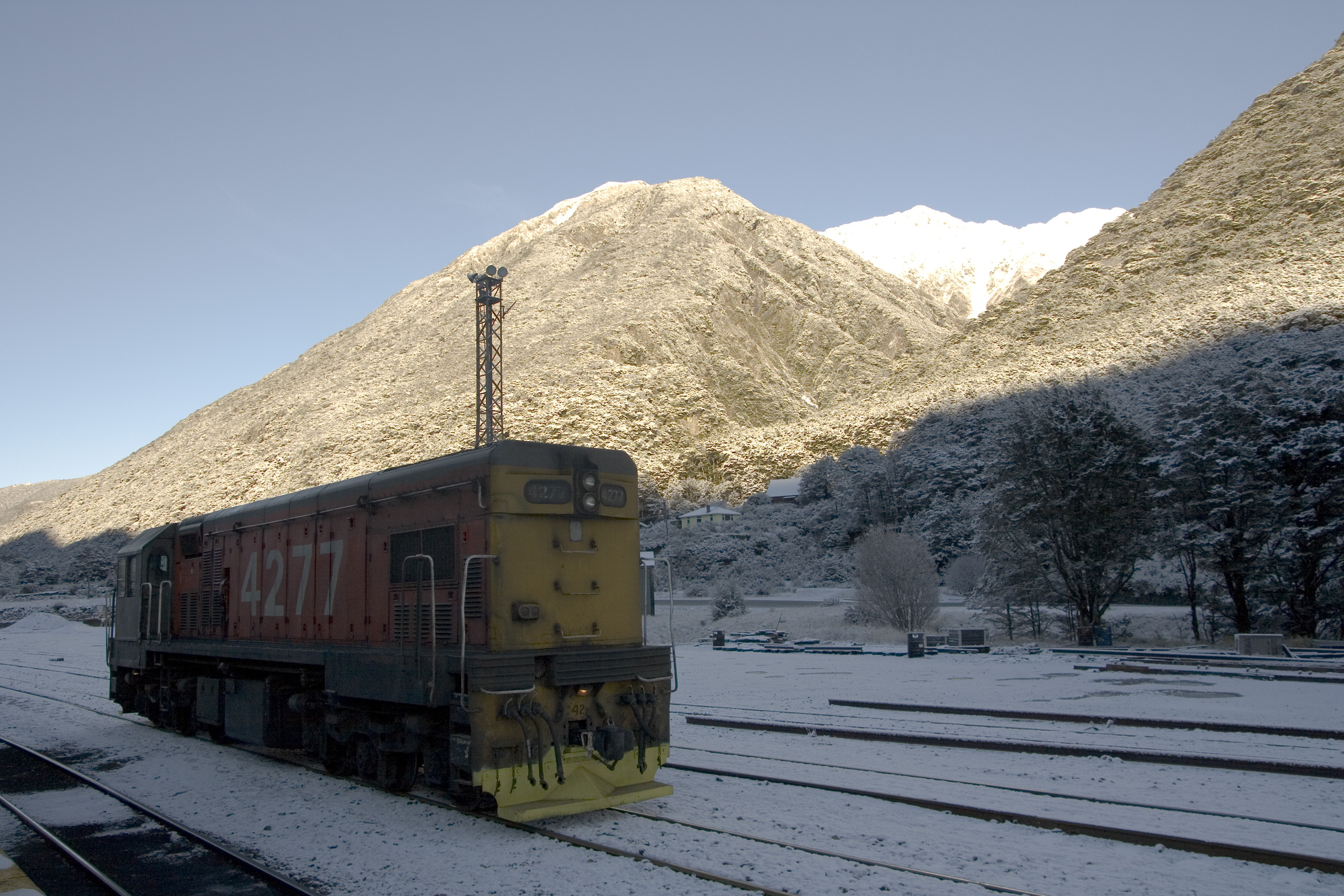 Arthurs Pass